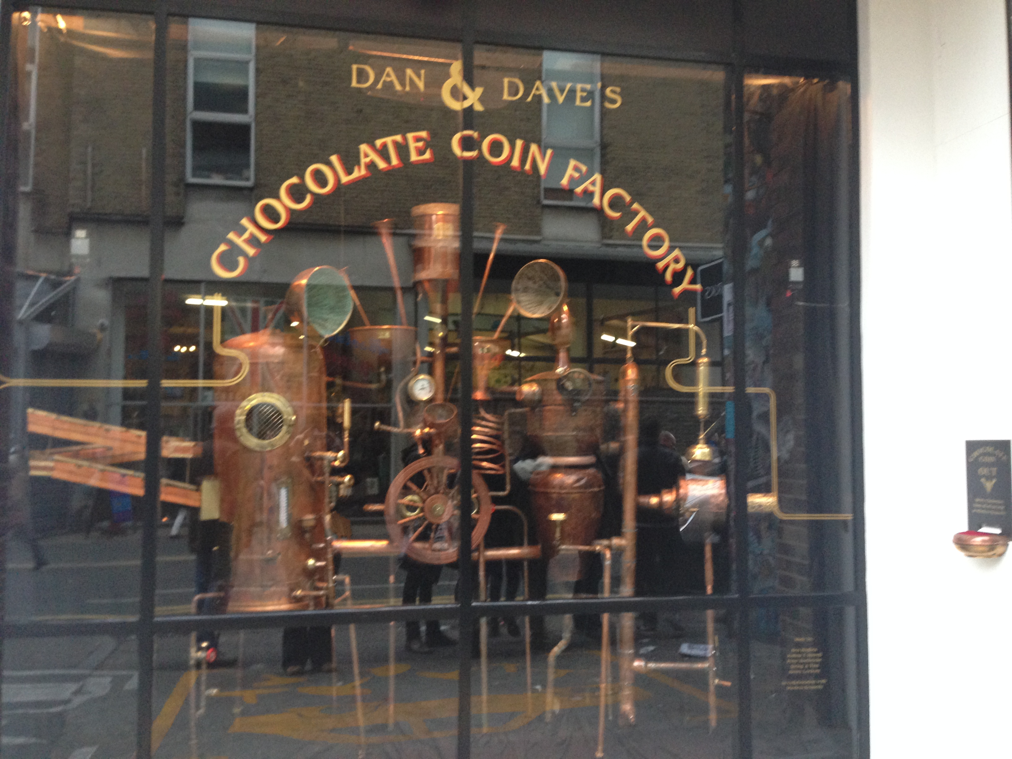 Chocolate coin machine